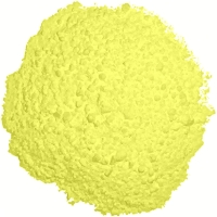 This is a picture of 99.5% Triangle brand sulfur powder from International Sulfur, Inc.